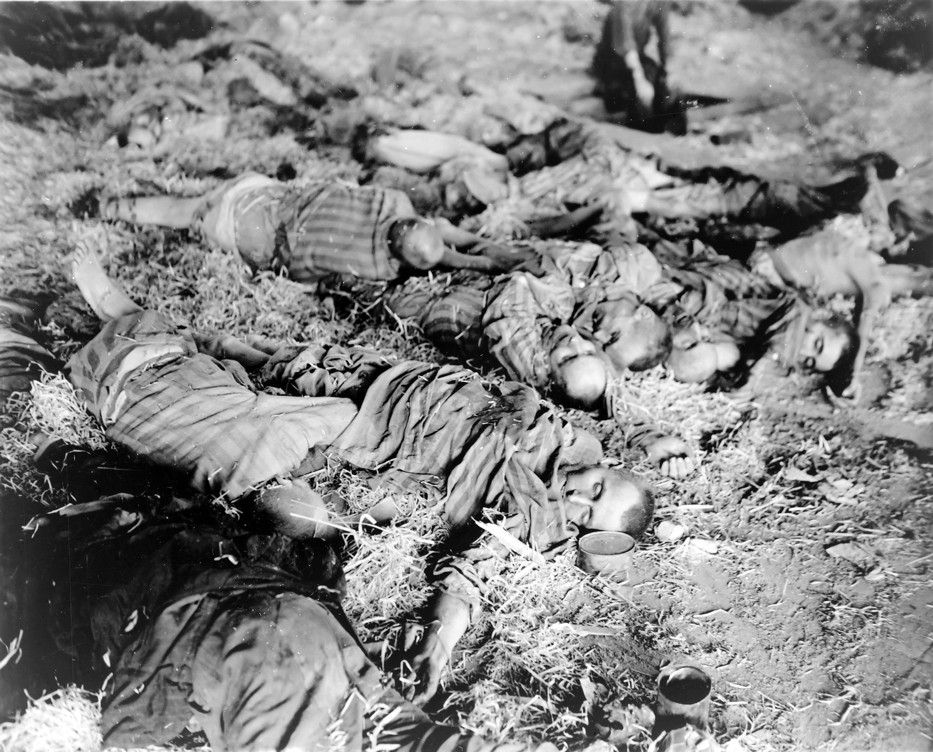 Dead workers lie in uneven rows on floors of barracks, found by American 3rd Armored Div., FUSA when it captured the German slave labor camp at Nordhausen.